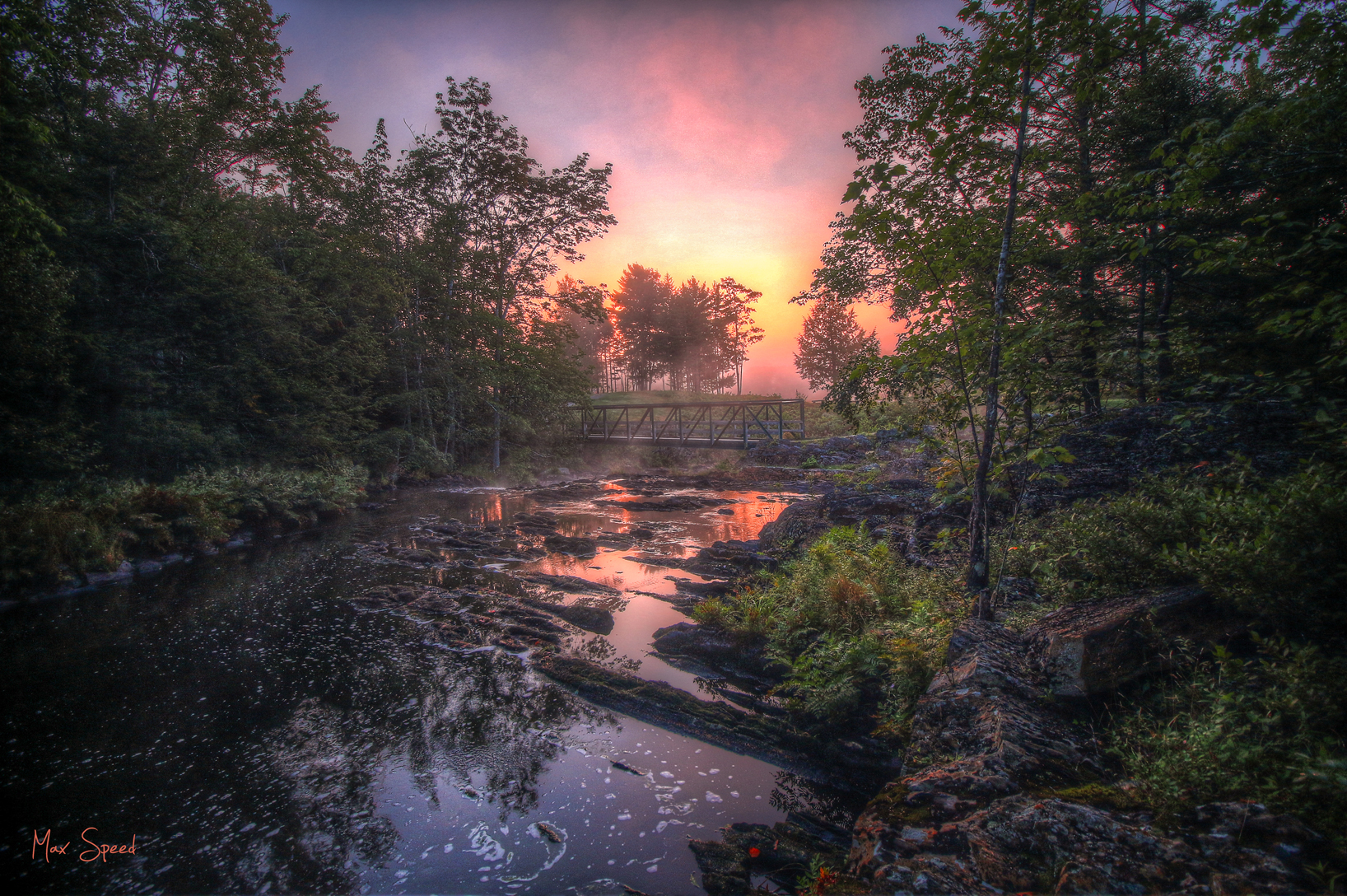 Sunrise at Lost Creek Golf Course